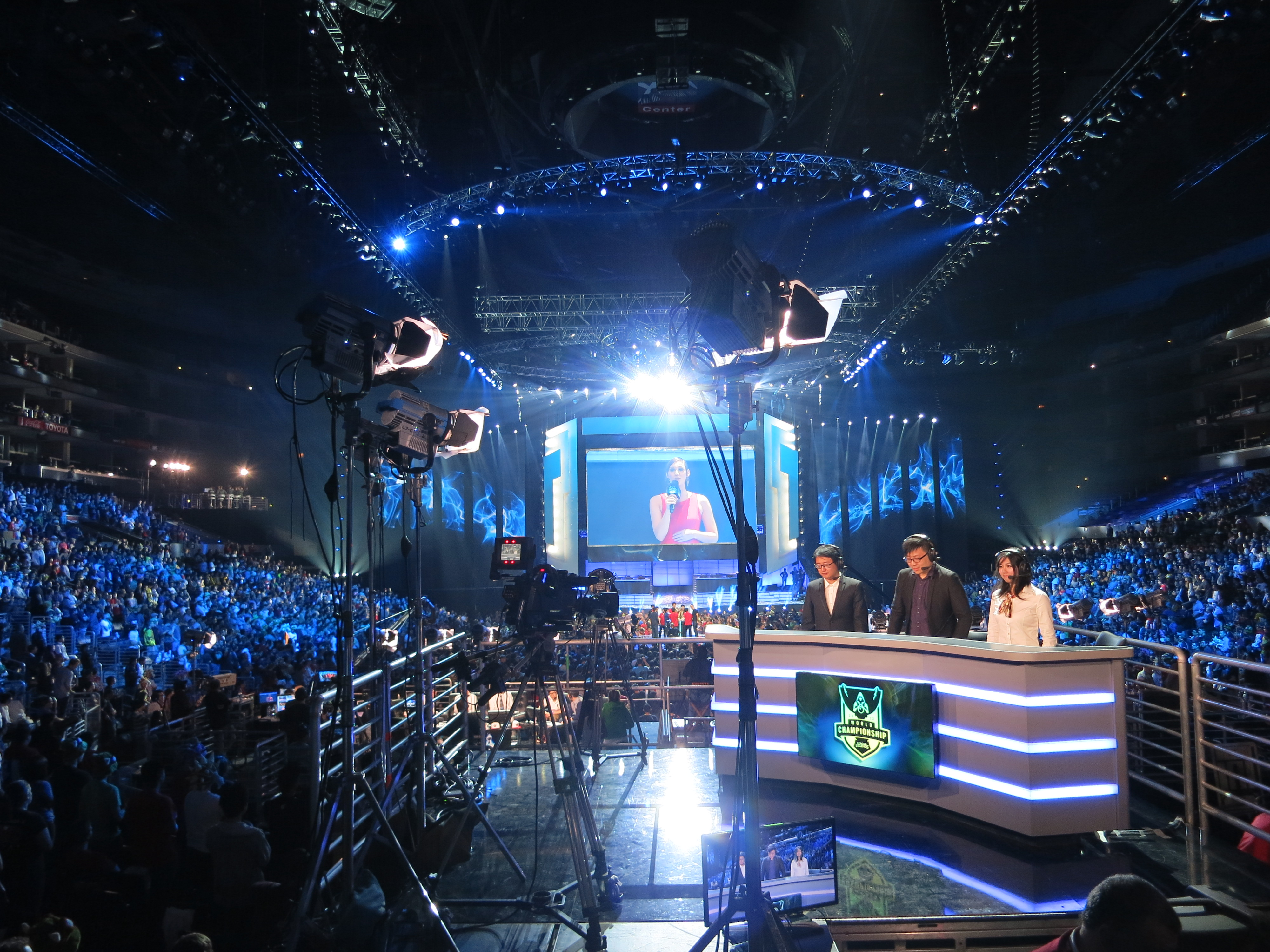 A view from a broadcast desk during the 2013 League of Legends World Championship.